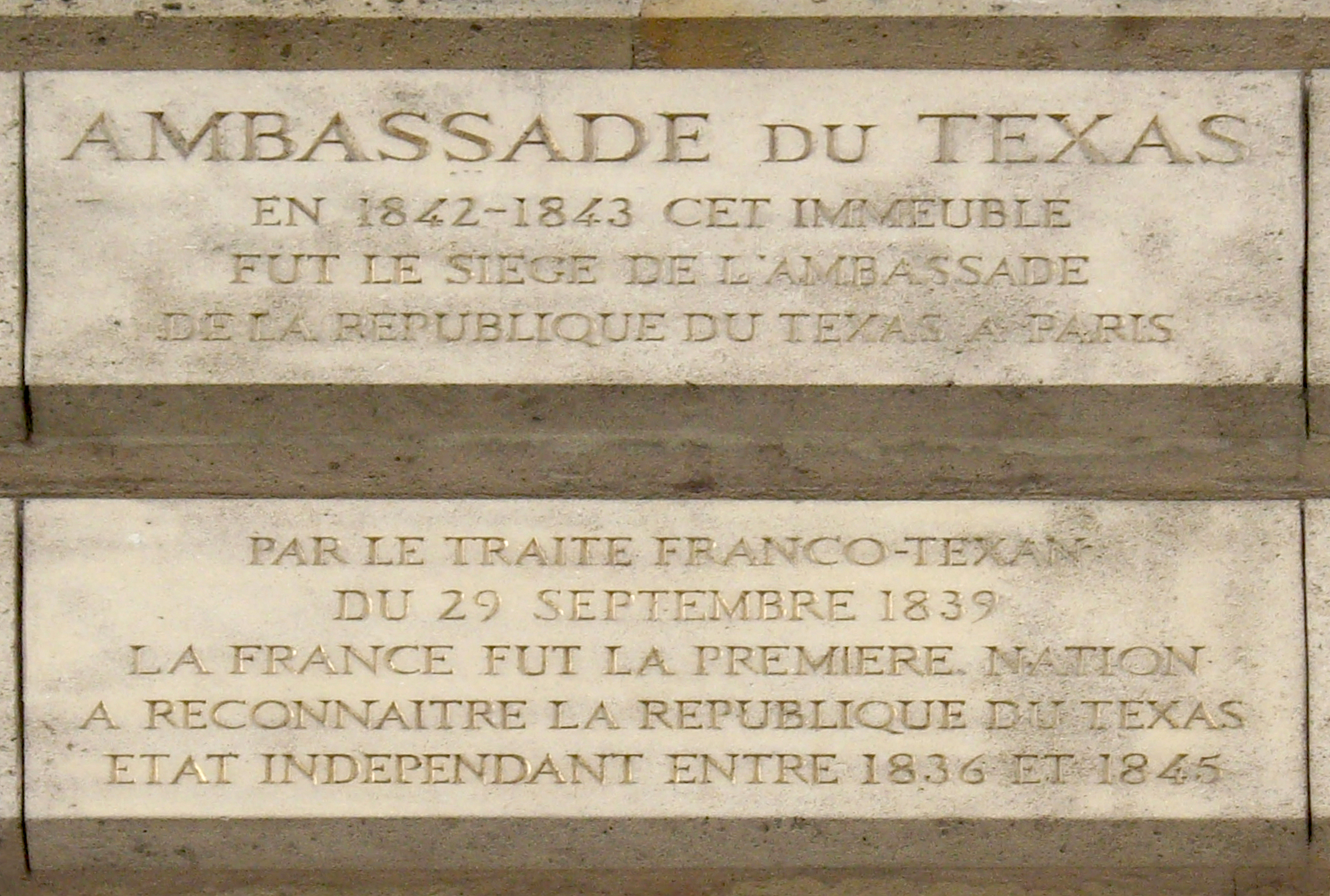 Commemorative plaque, 1 Place Vendôme, Paris 1st. Translation: "Embassy of Texas. In 1842-1843 this building was the seat of the Embassy of the Republic of Texas in Paris. With the Franco-Texan Treaty of 29 September 1839 France became the first nation to recognize the Republic of Texas, an independant state between 1836 and 1845."